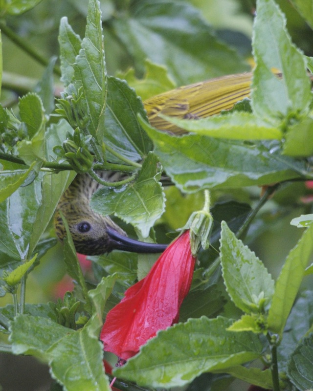 Streaked Spiderhunter - piercing base of hibiscus flower to get at nectar For id picture Arachnothera magna ssp Arachnothera magna magna Fraser's Hill, Malaysia 2nd. May 2009 Distribution: 690V5389